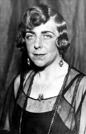 Portrait Vicki Baum. Collection: Theatermuseum, Vienna. Inv.-Nr. FS_PE12003alt